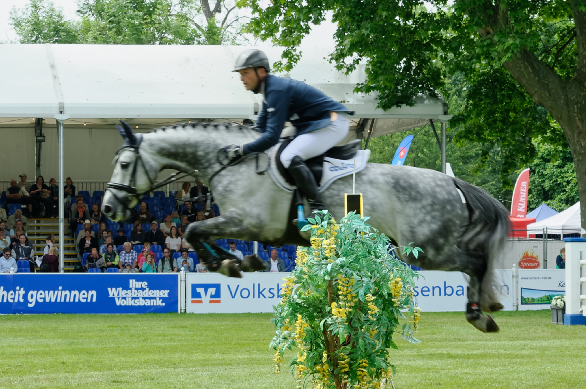 CSIYH* int. Springprüfung nach Strafpunkten und Zeit Internationales Pfingstturnier Wiesbaden 2015 The making of this document was supported by the Community-Budget of Wikimedia Germany.